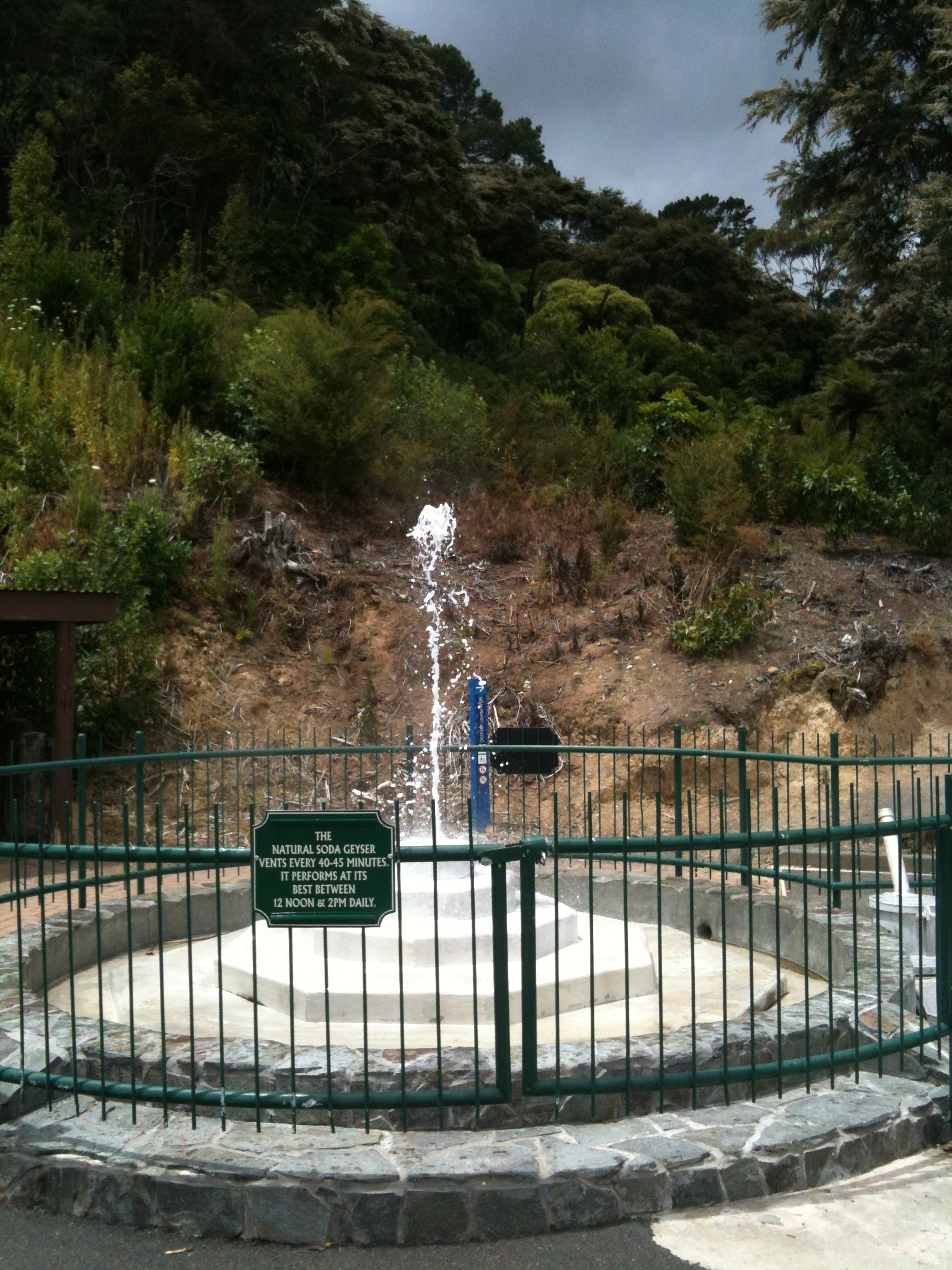 The Mokena Hou Geyser at Te Aroha, New Zealand, is pictured erupting.